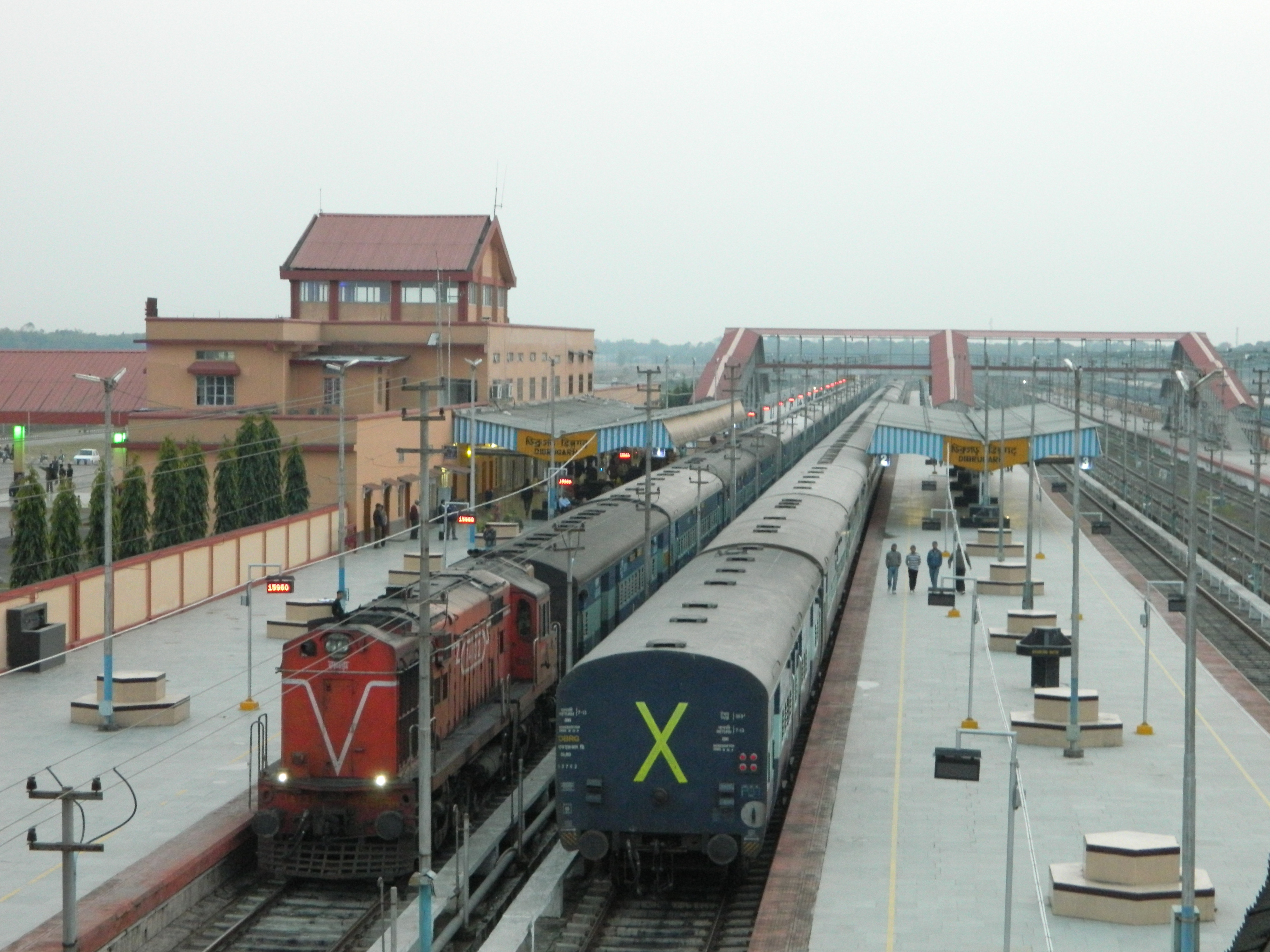 Newly built Dibrugarh railway station